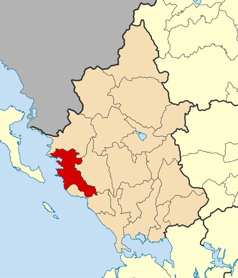 Locator map for Igoumenitsa municipality in Greek region Epirus (2011)